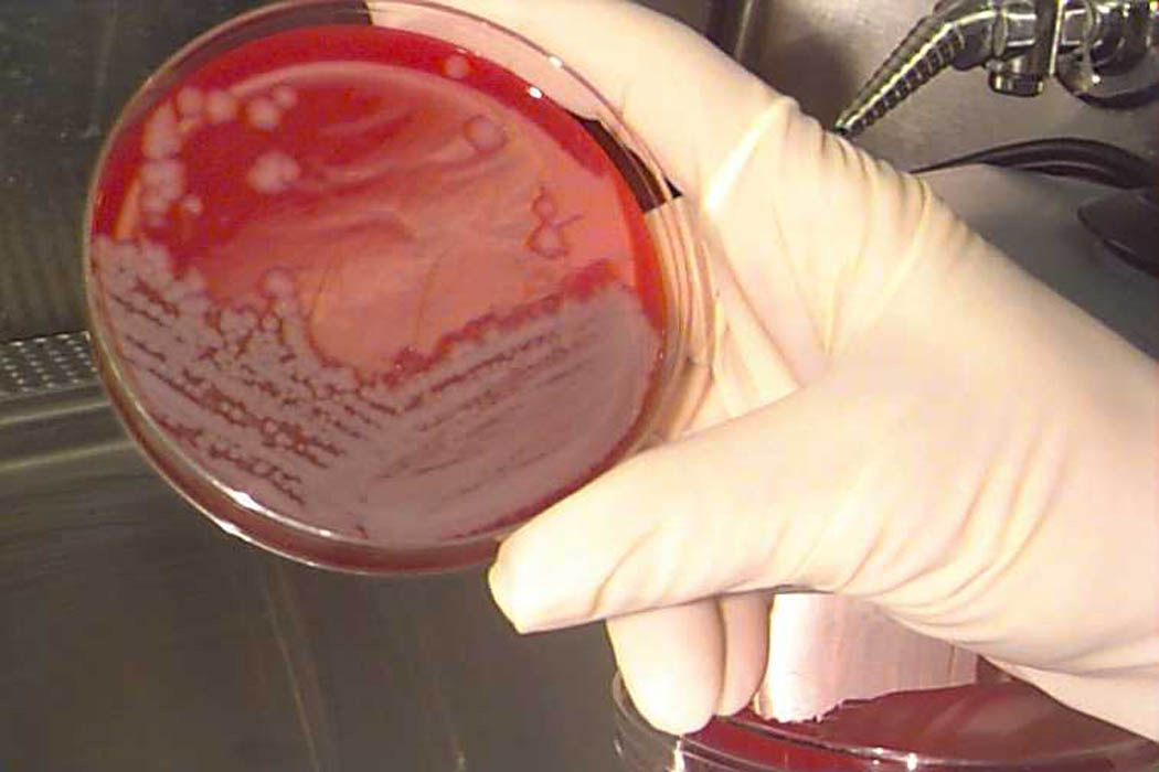 Shown is an anthrax culture. The disease anthrax is produced by the bacteria Bacillus anthracis.